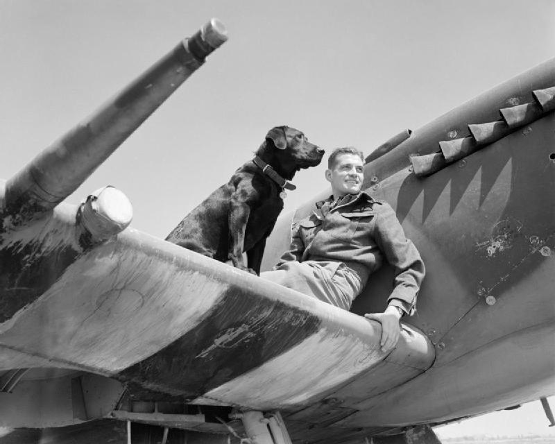 Johhnnie Johnson, relaxing in between sorties on the wing of his Spitfire in Normandy, c.June–August 1944. His dog, Sally, is to the left.